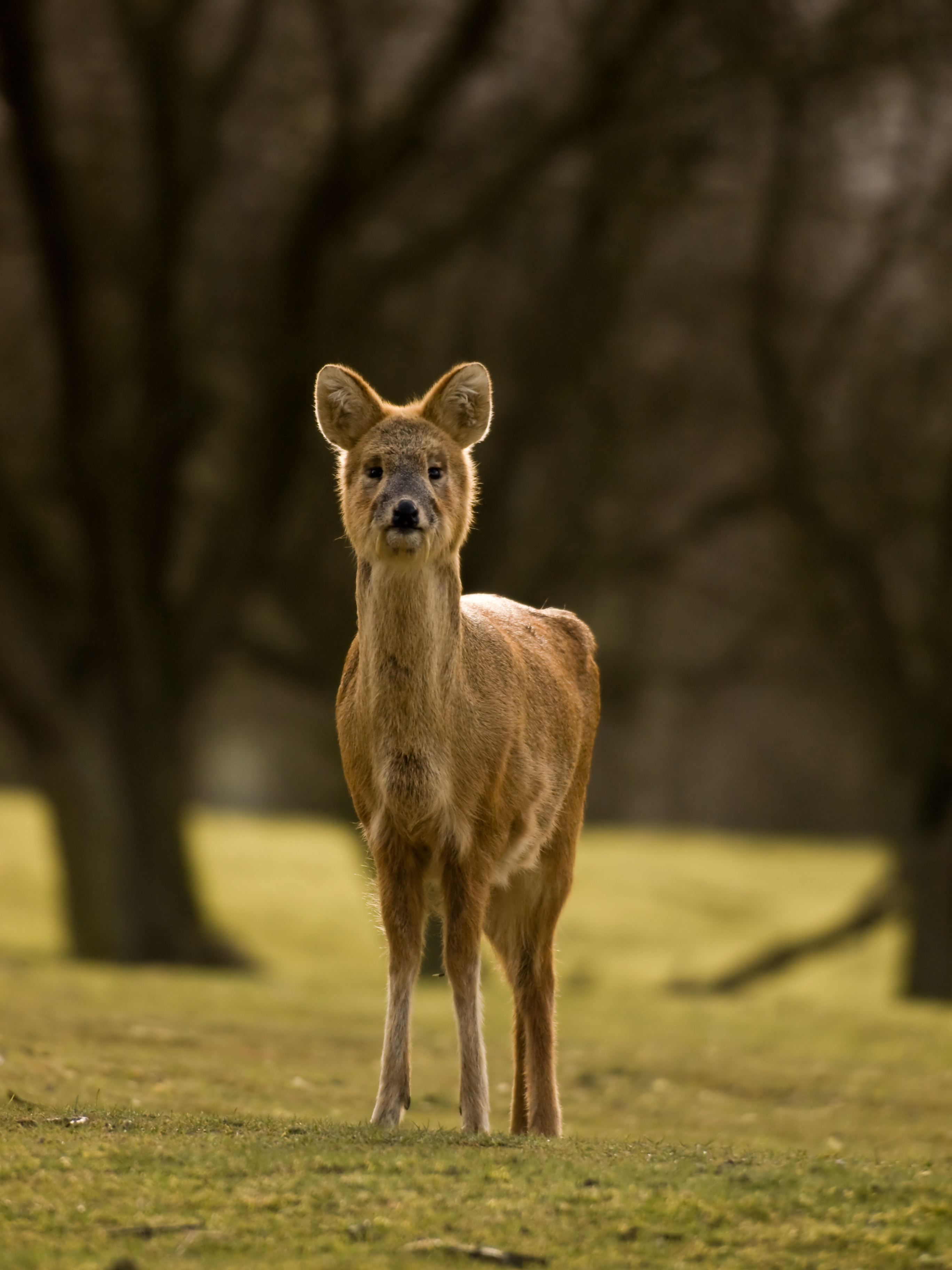 Chinese water deer at Whipsnade Zoo, Dunstable